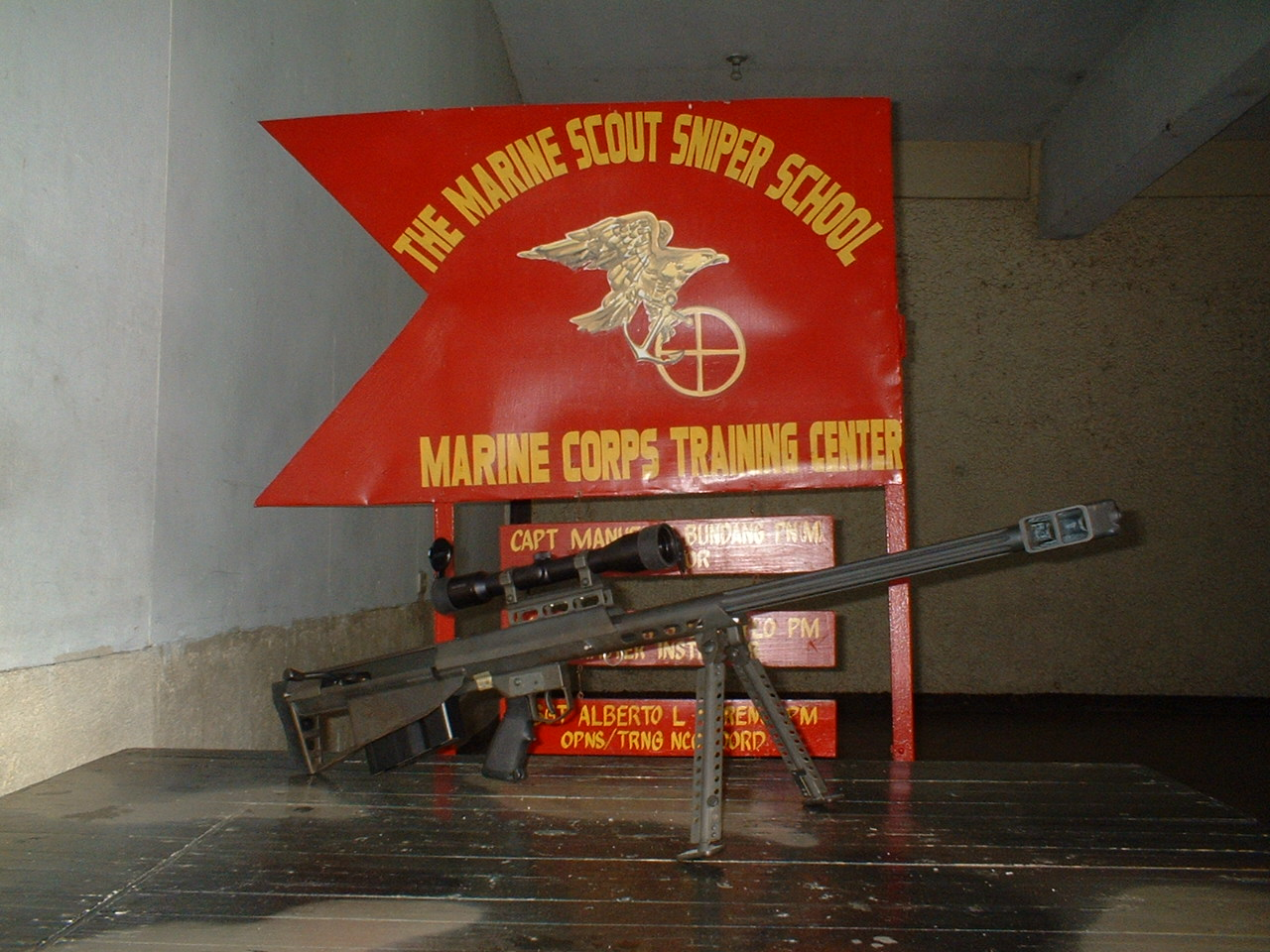 A Barrett M95 in front of a Philippine Marine Corp flag. Note loaded magazine, bipod and retracted bolt.